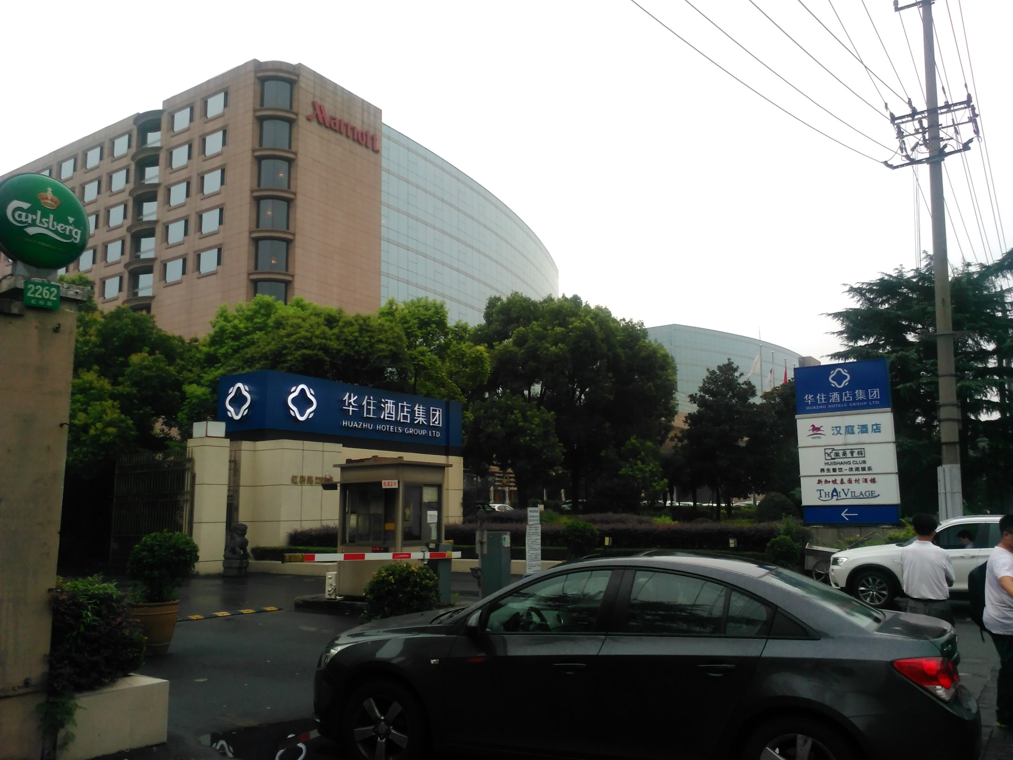 Huazhu Hotels Group headquarters (2266 Hongqiao Road, Changning District, Shanghai 200336 People's Republic of China), and Shanghai Marriott Hotel Hongqiao (2270 Hong Qiao Road)